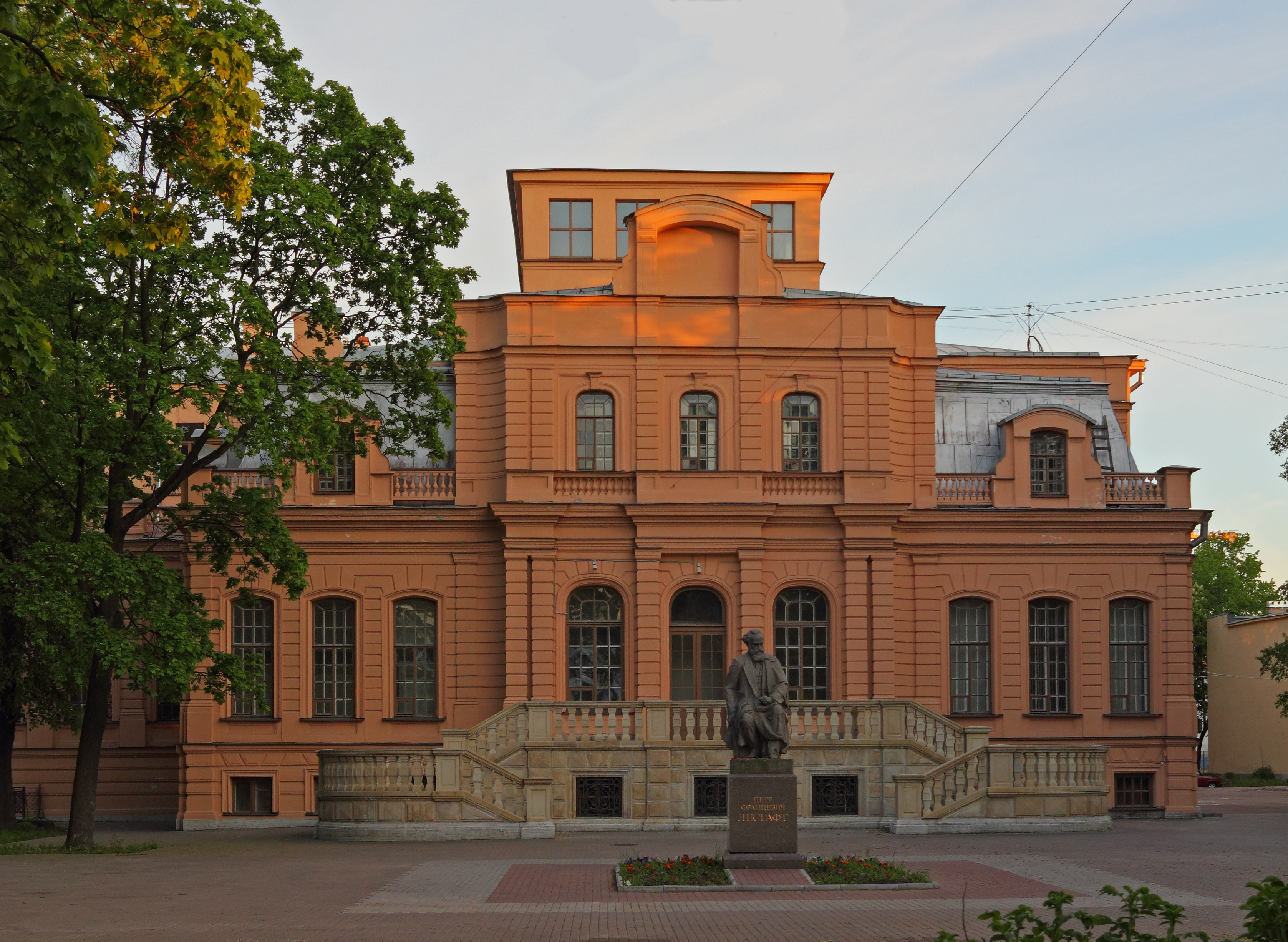 Saint Petersburg, Russia. Moika Embankment, 106. Palace of Grand Duchess Xenia Alexandrovna.